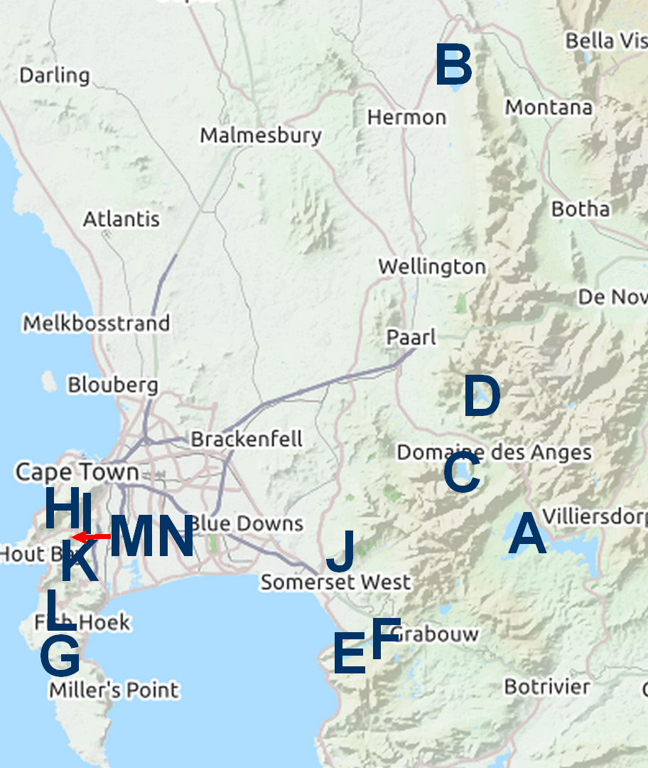 top view of location of cape town supply dams